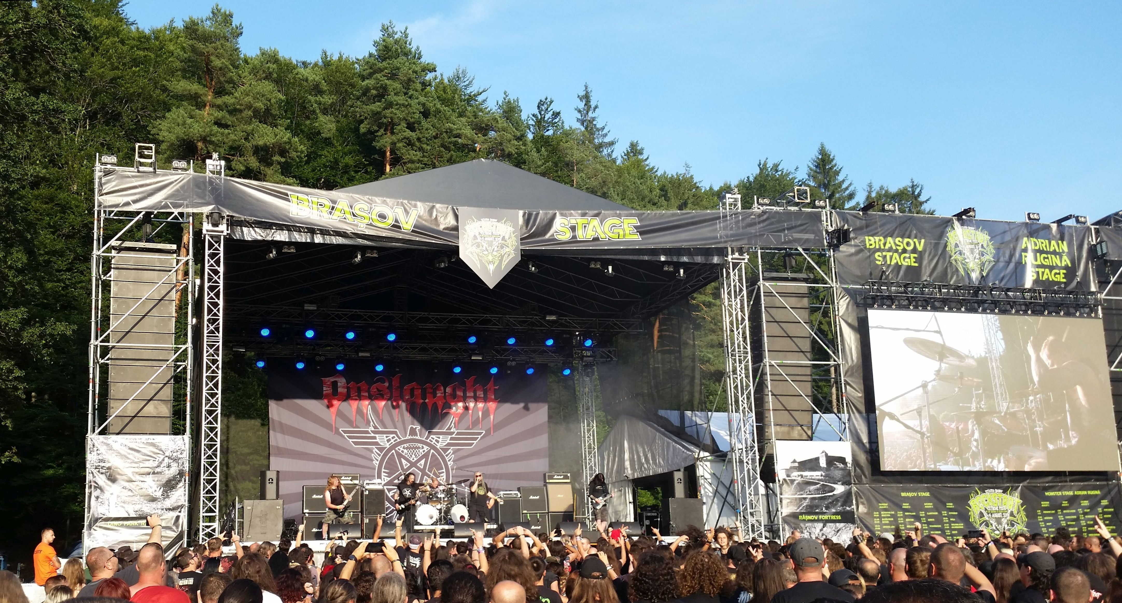 Onslaught live at Rockstadt 2019 in Râșnov, Romania, on 02 August 2019. The original picture was cropped in order to exclude as many faces from the audience as possible.